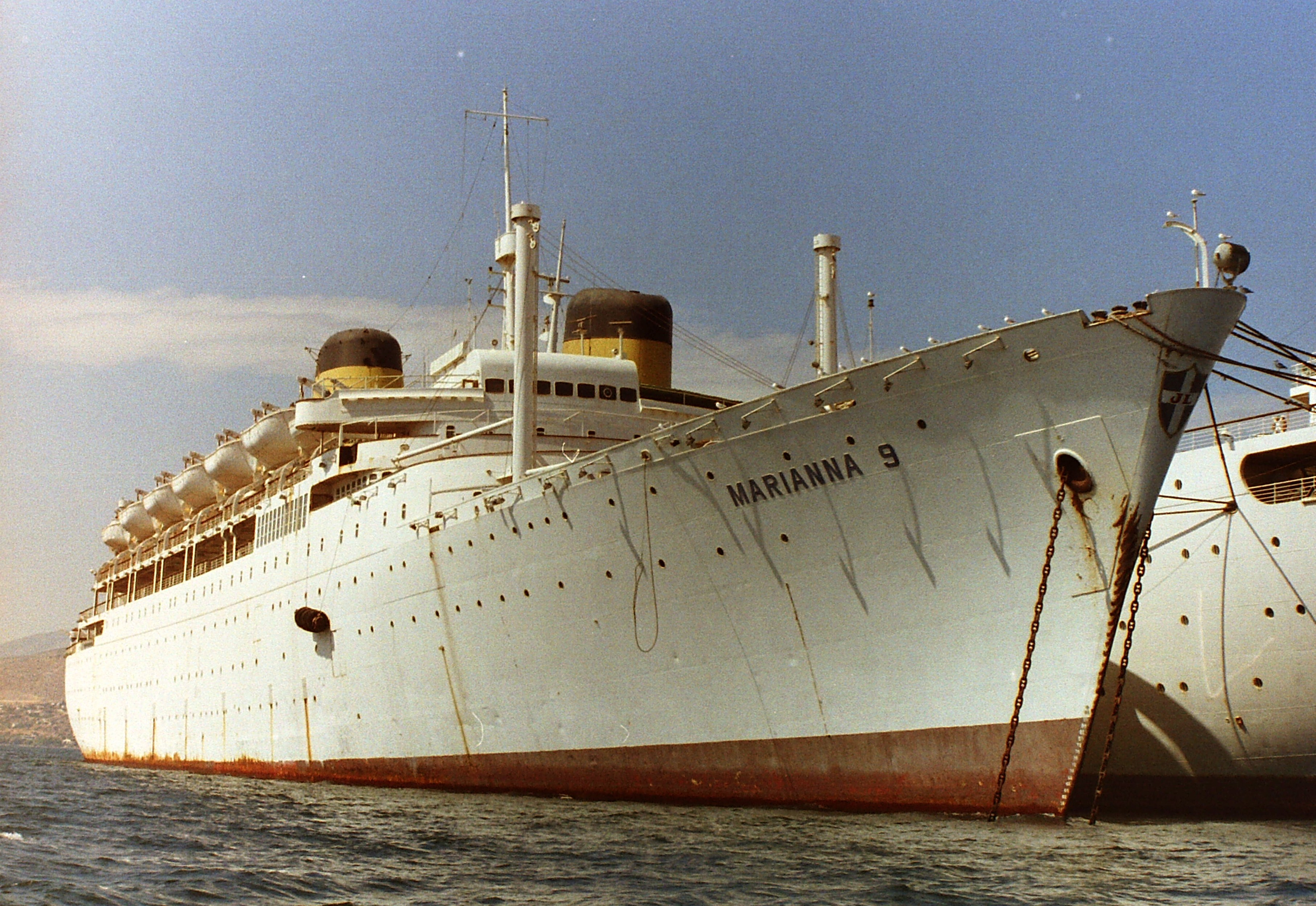 The cruise ship Marianna VI laid up in Eleusis in July 2000.